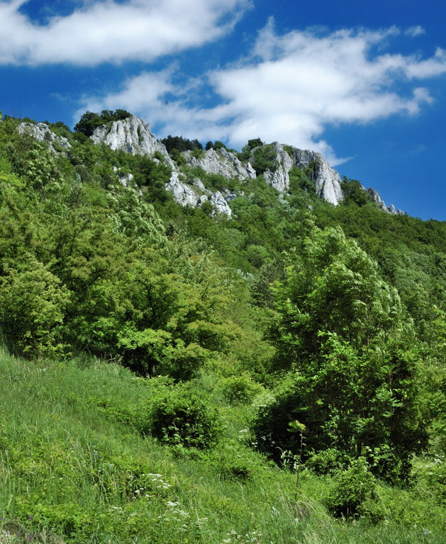 Kršlenica, Plavecký kras